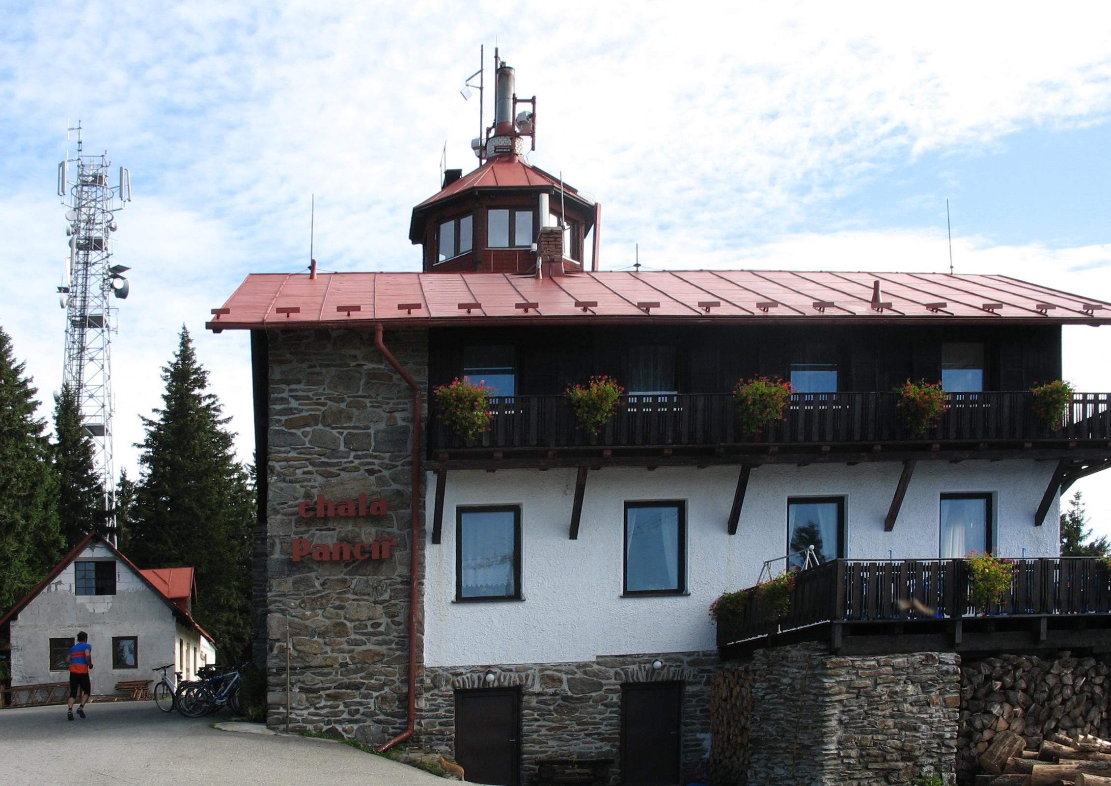 Mountain Pancíř, Šumava, Czech republic)